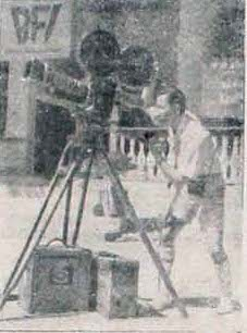 One of the Wong Brothers, Chinese Indonesian filmmakers from the early 20th century